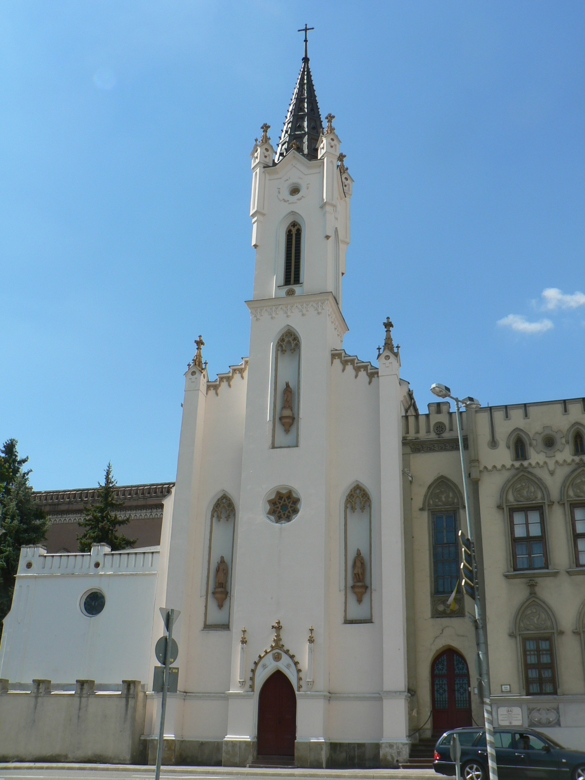 A Világ királynője-templom az Óvári Ferenc utca felől